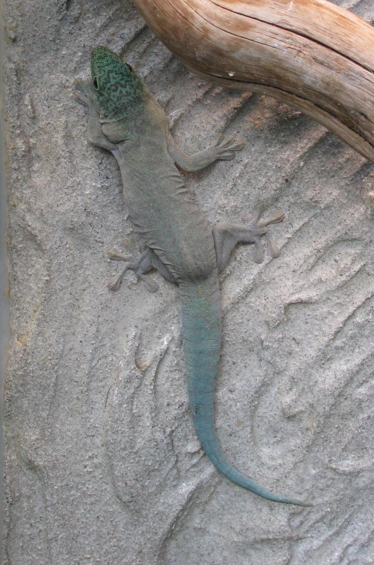 Phelsuma standingi